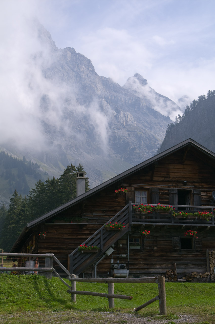 The Paturage de Solalex in the Swiss commune of Bex